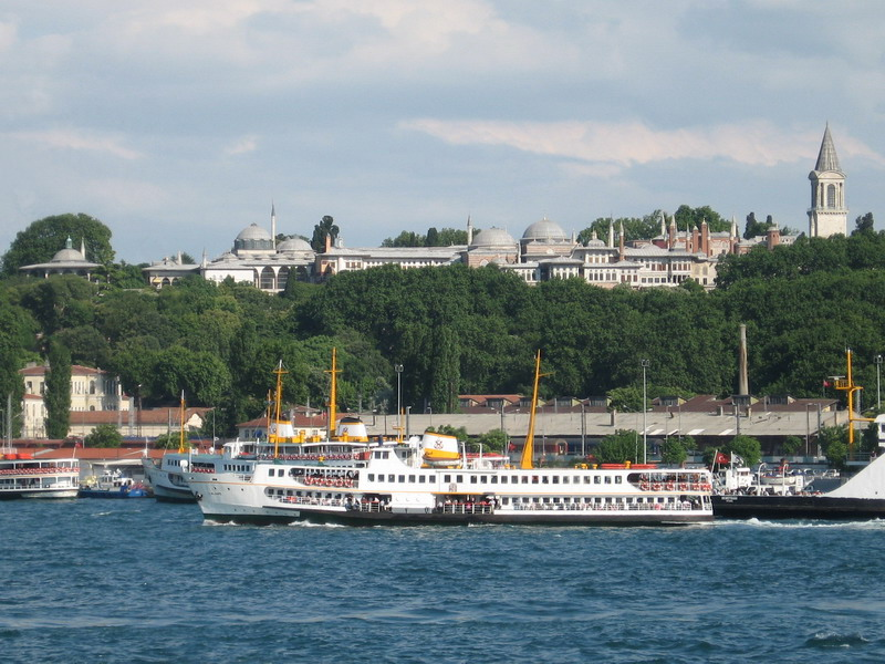 Topkapi Palace from Galata Bridge